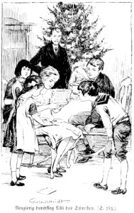 Illustration of Richard Gutschmidt for Else Urys Lilli Lilipuy